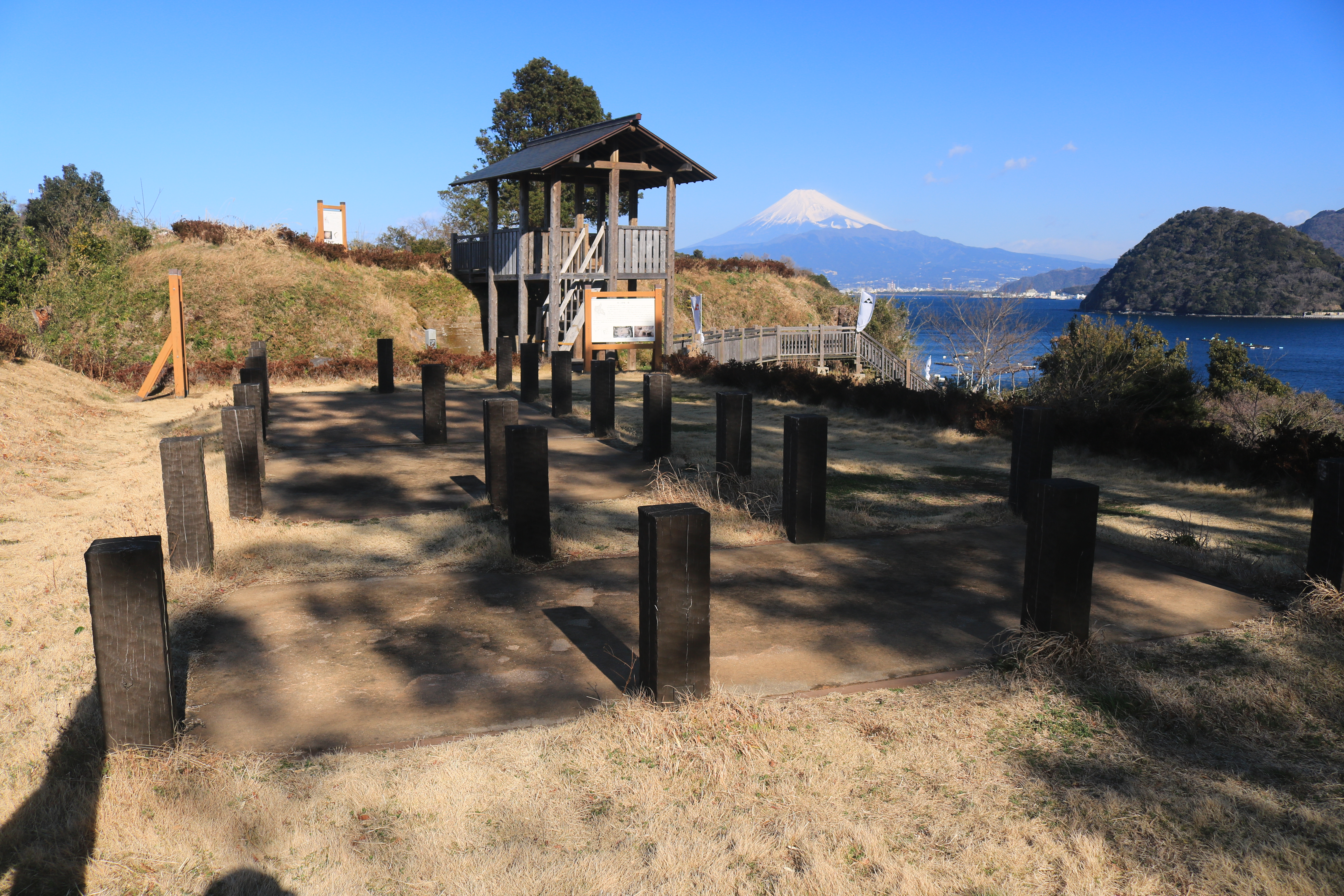 2nd Kuruwa of Nagahama Castle and Mount Fuji in Numazu, Shizuoka Prefecture, Japan.